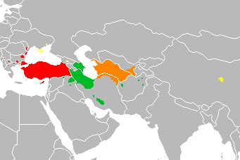 Map of the Oghuz Languages Turkish language Azerbaijani language Turkmen language Turkish dialects of Iran